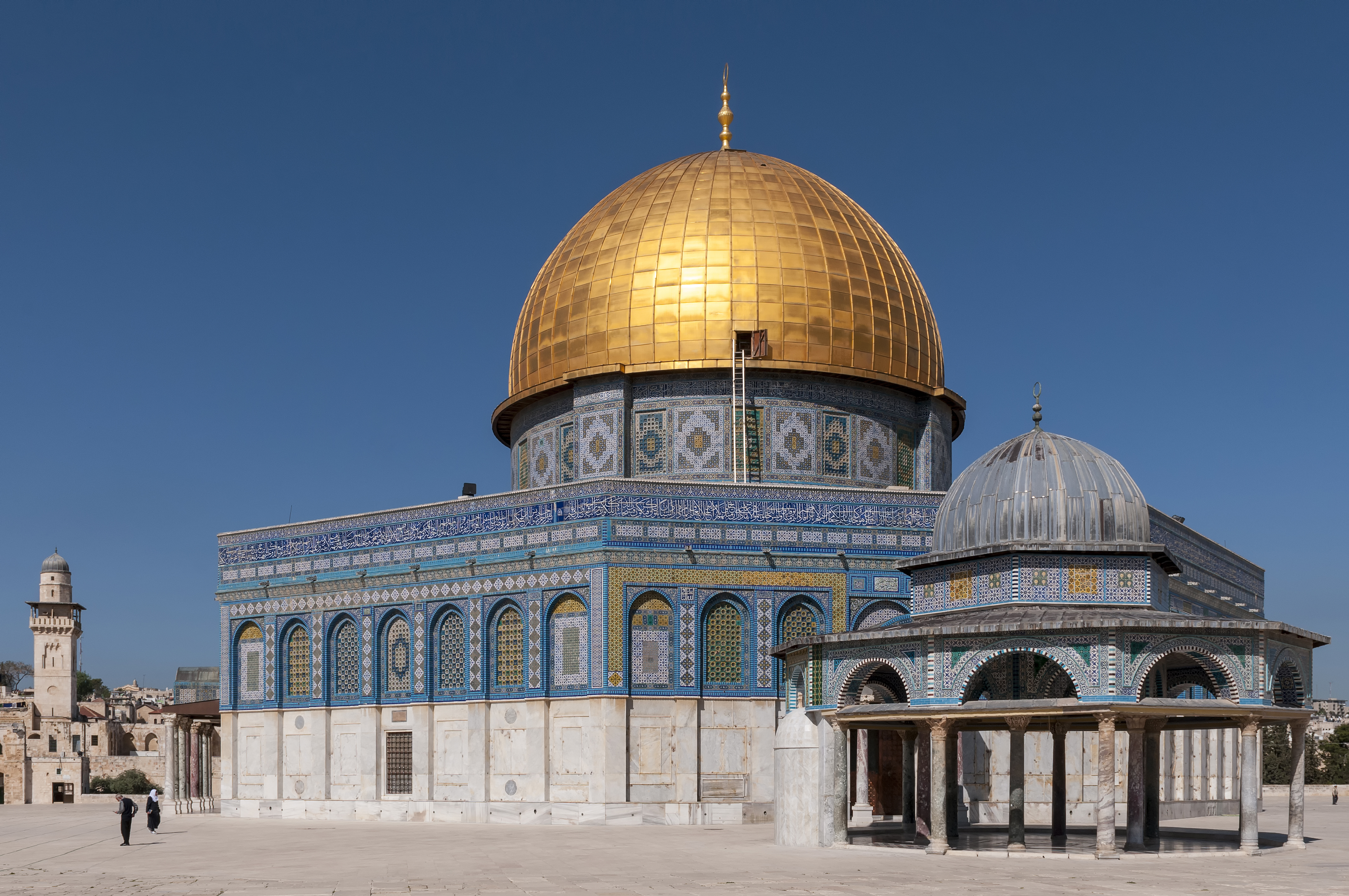 Dome of the Rock on the Temple Mount Jerusalem